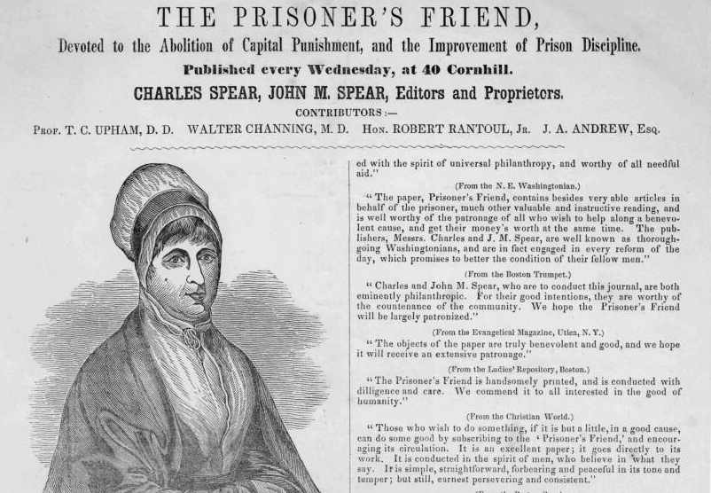 Item related to Cornhill, Boston, Massachusetts. "Circular. The Prisoner's friend, devoted to the abolition of capital punishment, and the improvement of prison discipline. Published every Wednesday, at 40 Cornhill. Charles Spear, John M. Spear, editors and proprietors. Contributors:-- Prof. T.C. Upham, D.D. Walter Channing, M.D. Hon. Robert Rantoul, Jr. J.A. Andrew, Esq. This paper has been established about one year. Its main object has been to show the causes, preventives, and results of crime, and to awaken a general interest in the subject of prison discipline, and in the reform of the discharged convict. .."